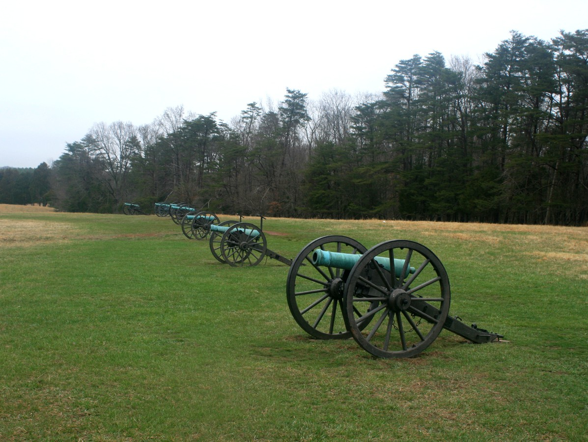 Stonewall Jackson's canons on Henry House Hill